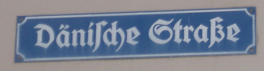 Modern street sign in Kiel for nostalgia reasons in Fraktur-letters. Dänische Straße = danish street. Other signs at bicycle holders on the street have meanwhile been replaced by signs in Antiqua. This sign was probably too high to be replaced.